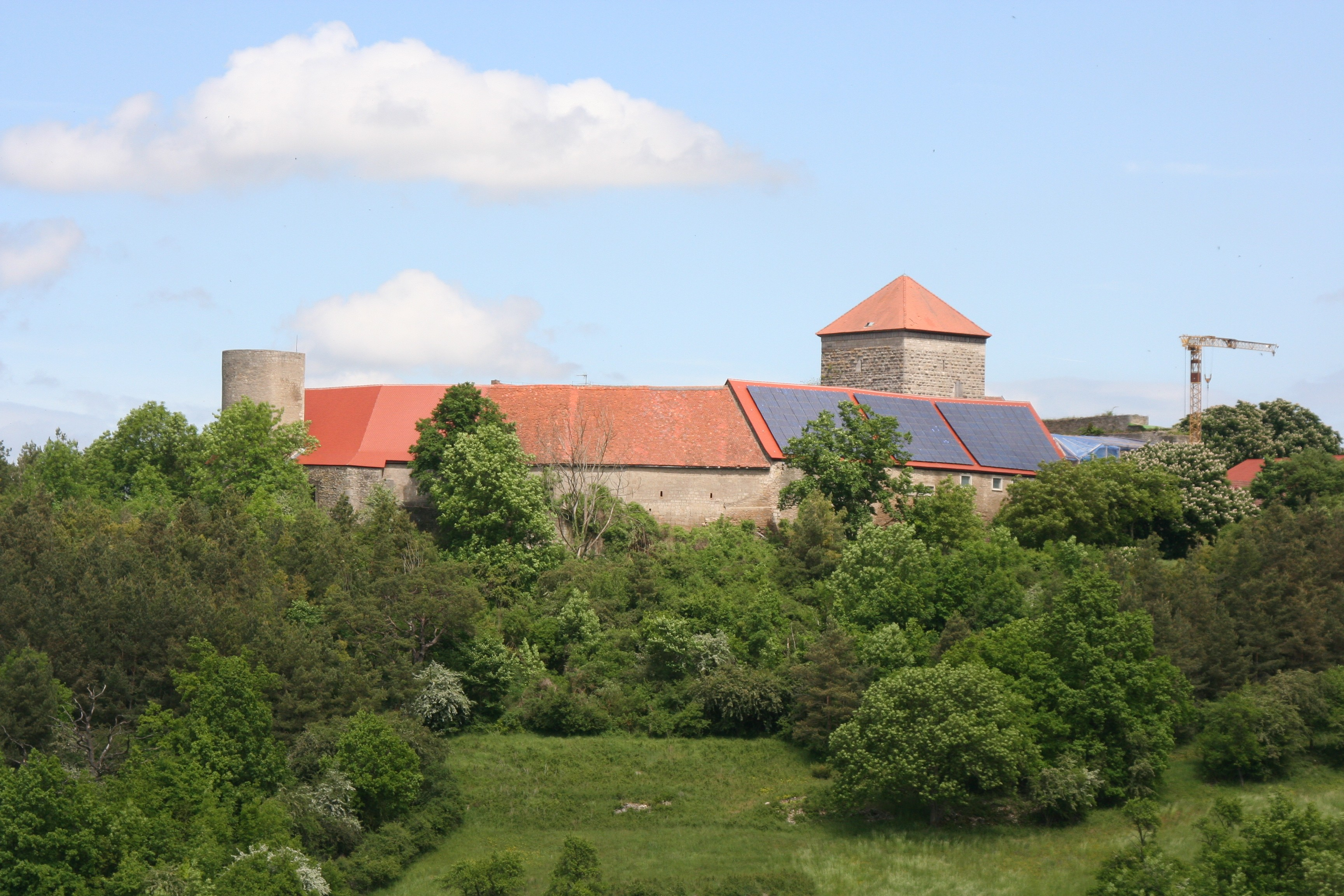 Brauneck castle ruin from the South